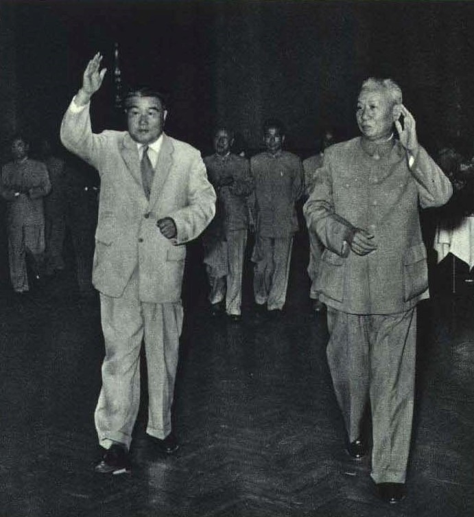 June 5, 1963, Liu Shaoqi (former Chairman of the PRC, right) to formally invite Choe Yong-gon (former President of Supreme People's Assembly of the DPRK, left) for an official visit.中文（台灣）: 1963年6月5日，劉少奇（中華人民共和國的前主席，右）正式邀請崔庸健（最高人民會議常任委員會的前委員長，左）參訪中華人民共和國。